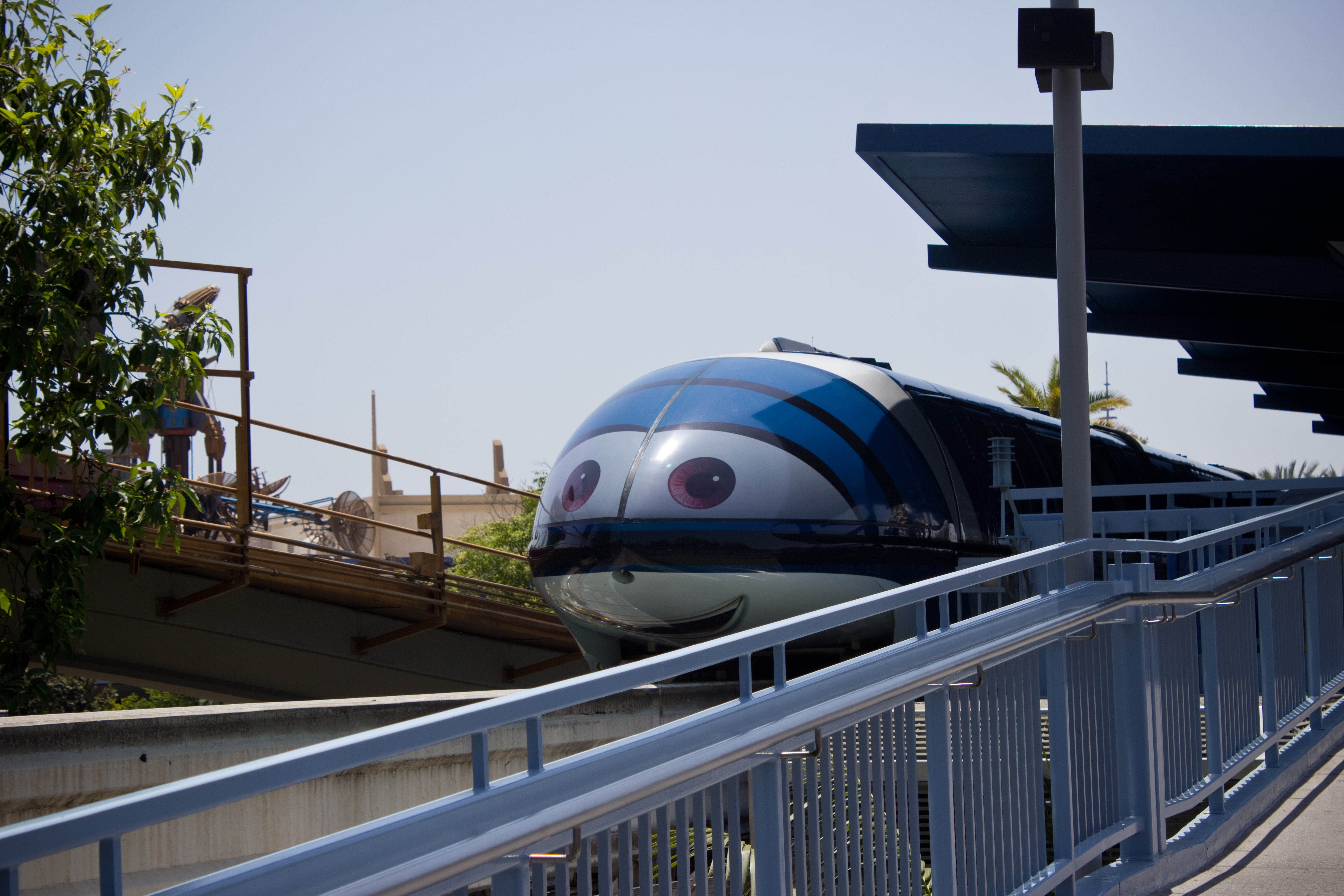 Mandy Monorail at the Tomorrowland station in Disneyland.